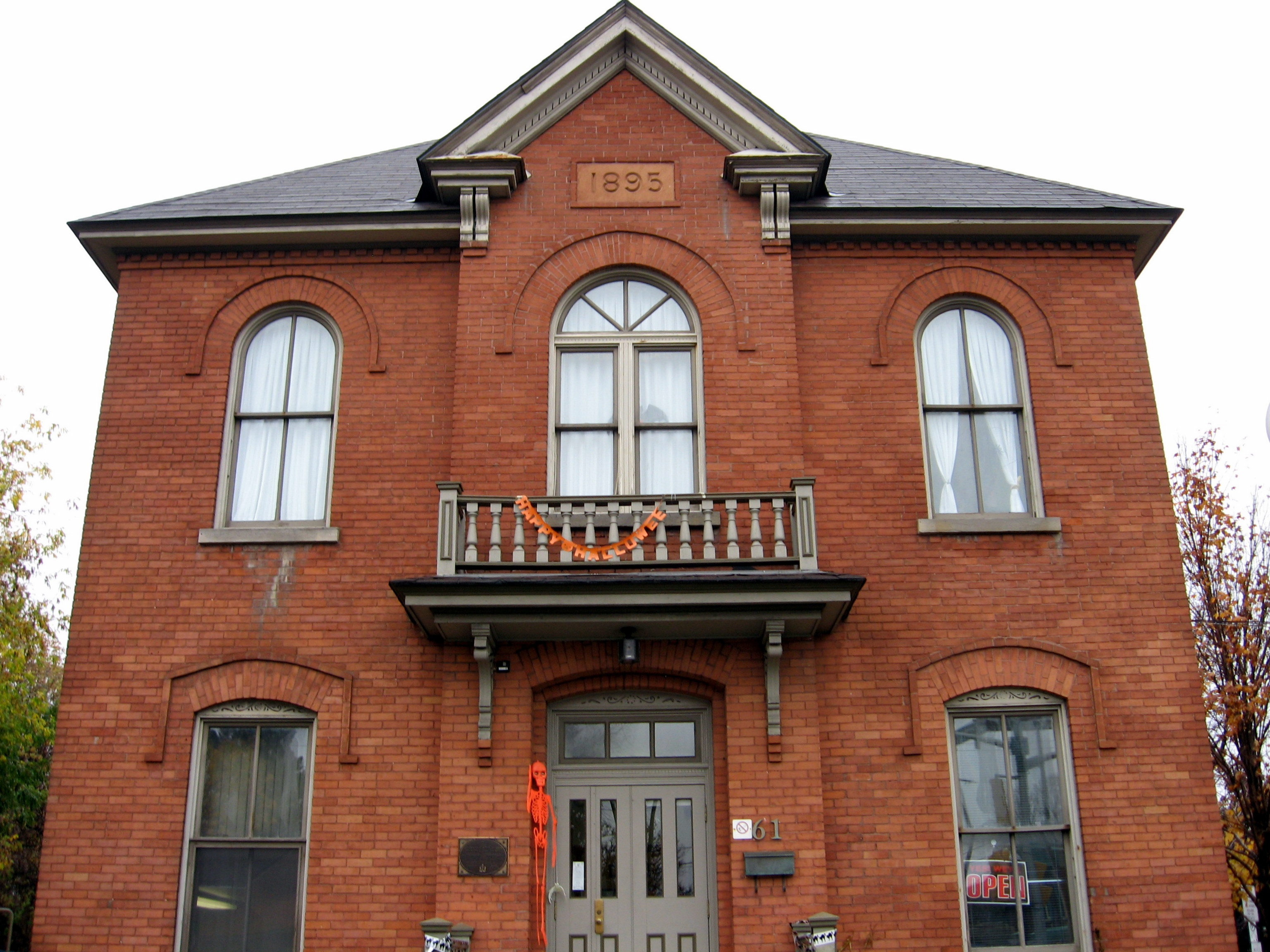 The Ottawa East Town Hall, a designated heritage property in Ottawa, Ontario, Canada.